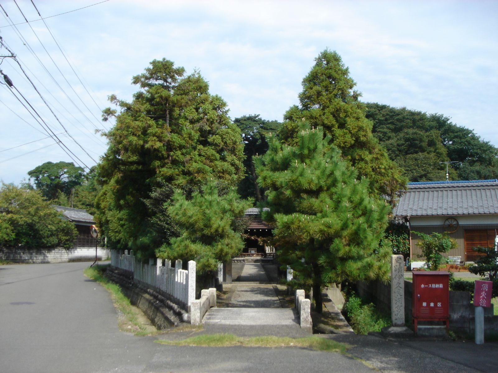 Tenjin Jinja(Shrine)in Mizuho City